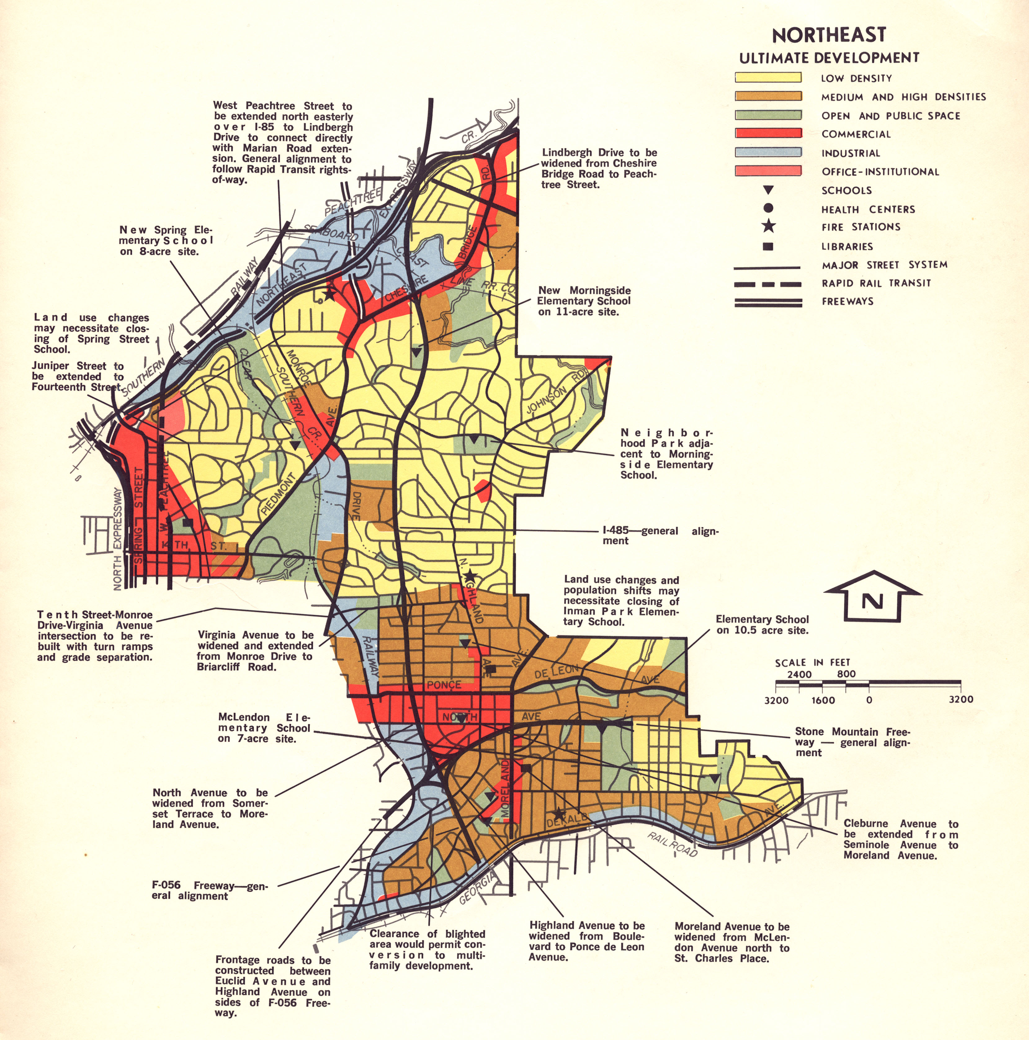 Proposed route of I-485 through northeastern part of the City of Atlanta in 1970.